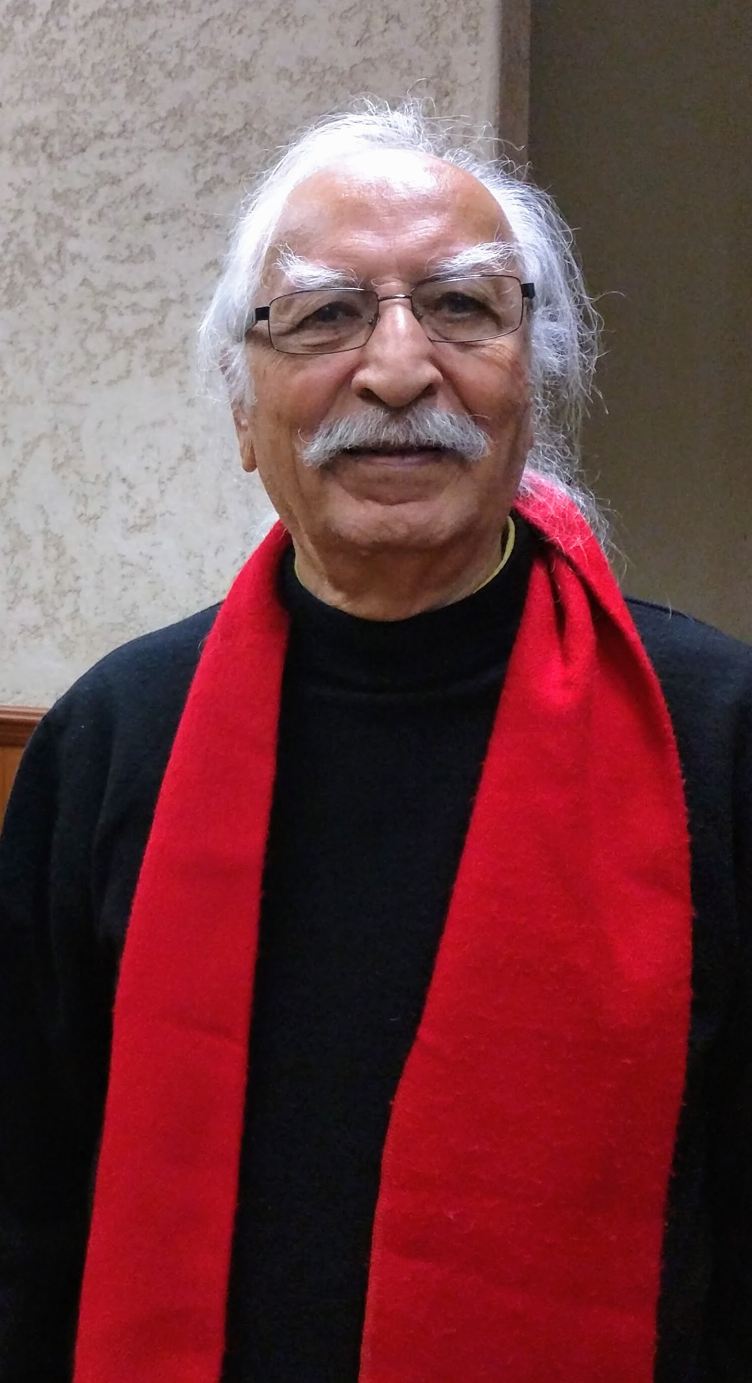 Noureddin Zarrinkelk at Stanford University, January 17, 2017.